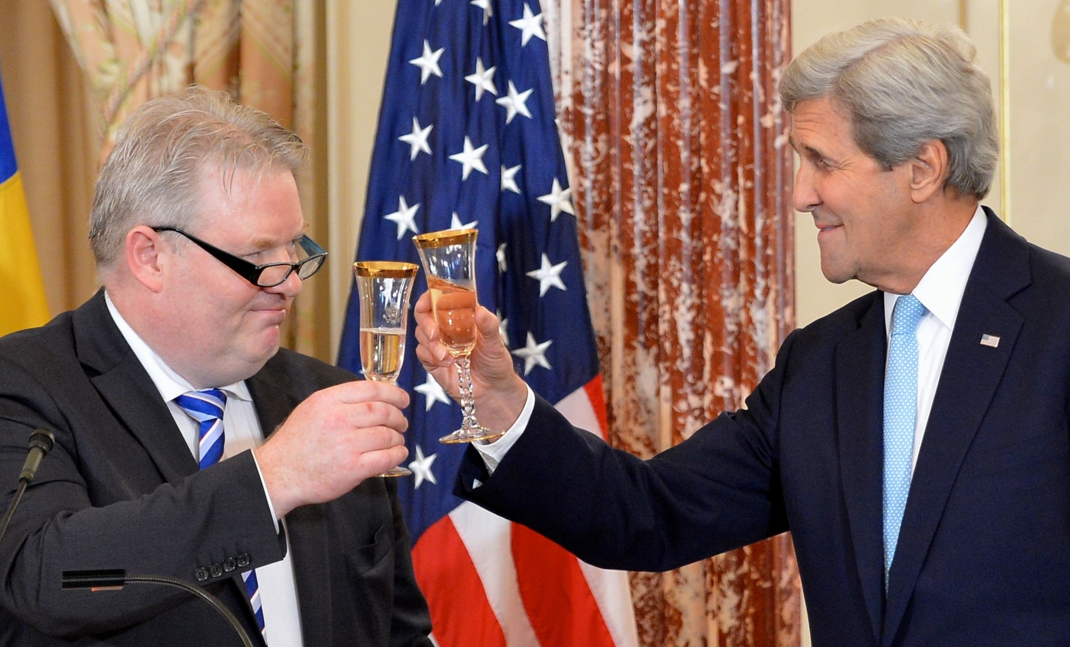 U.S. Secretary of State John Kerry and Icelandic Prime Minister Sigurdur Ingi Johannsson toast the U.S.-Nordic relationship at a working luncheon that the Secretary hosted in honor of Nordic leaders: Finnish President Sauli Niinistö, Norwegian Prime Minister Erna Solberg, Swedish Prime Minister Stefan Löfven, Danish Prime Minister Lars Lokke Rasmussen, and the Icelandic Prime Minister, at the U.S. Department of State in Washington, D.C., on May 13, 2016. [State Department photo/ Public Domain]